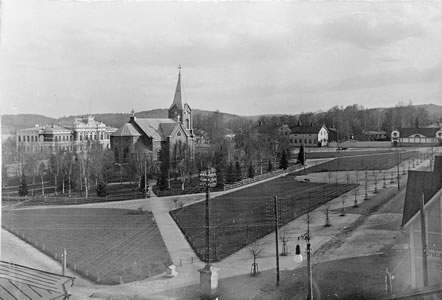 Kirkkopuisto park in Jyväskylä, Finland in early 1900s